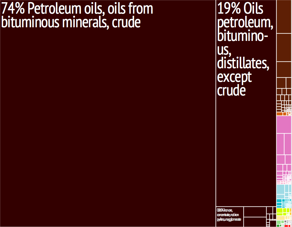 Venezuela Export Treemap from MIT Harvard Economic Complexity Observatory